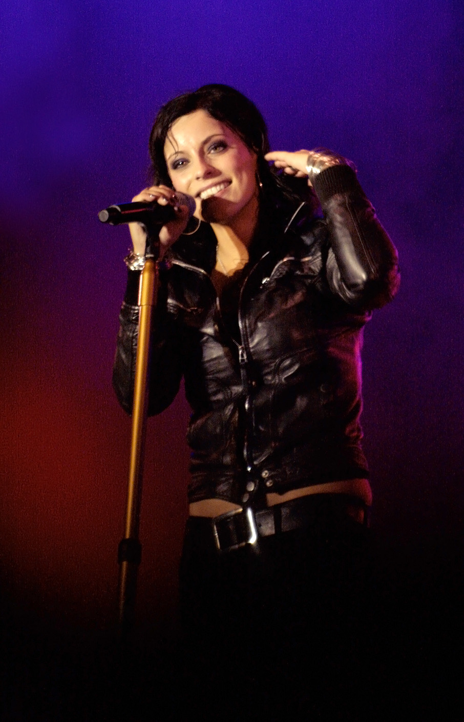 Silbermond at the Donauinselfest 2009